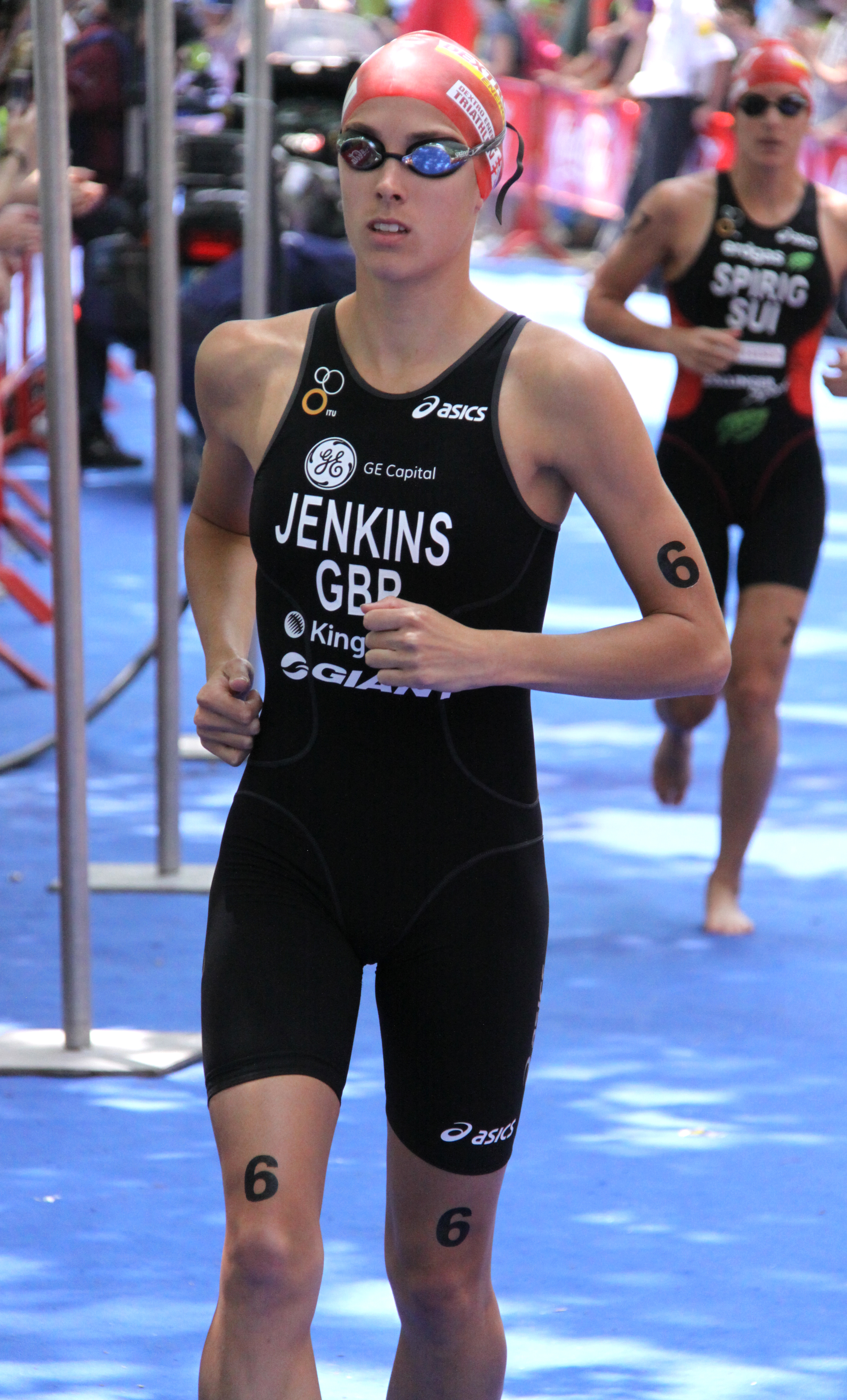 Helen Jenkins (Tucker) at the World Championship Series Triathlon in Madrid, 2010.